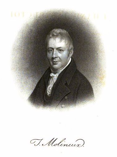 Portrait of Thomas Molineux (1759–1850), English stenographer and schoolteacher.